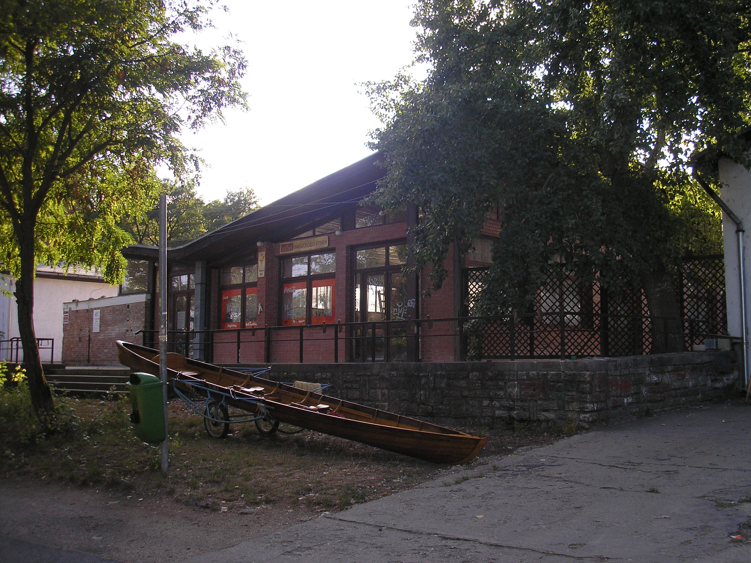 Closed self-service restaurant at Roman Beach, Budapest, Hungary